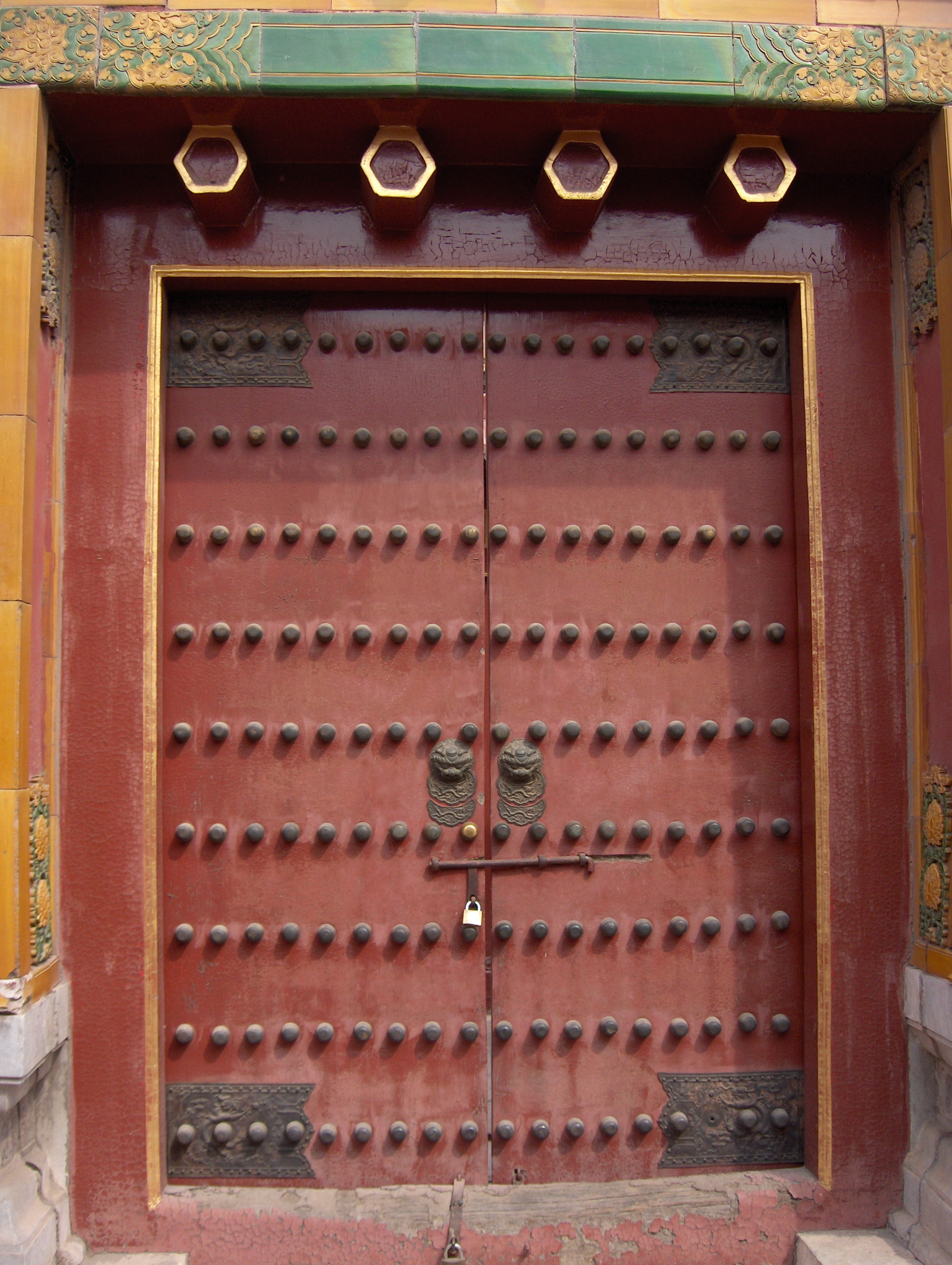 An inner door in Forbidden City. The creatures forming the doorknob-like reliefs are jiaotu (椒图).